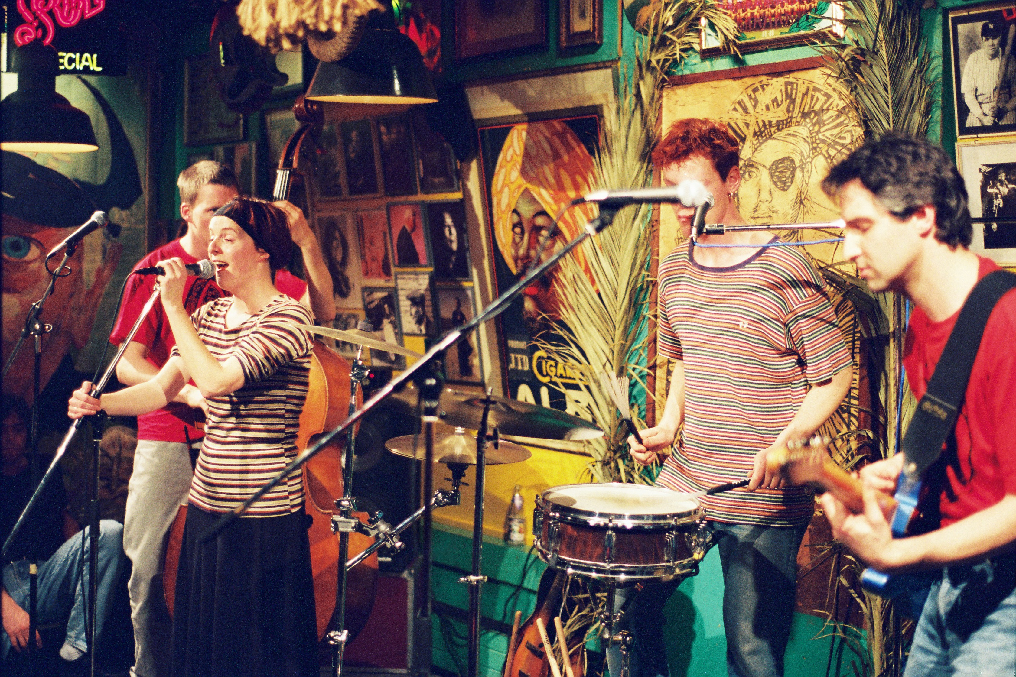 Starfish @ El Internacional Zürich, 1994